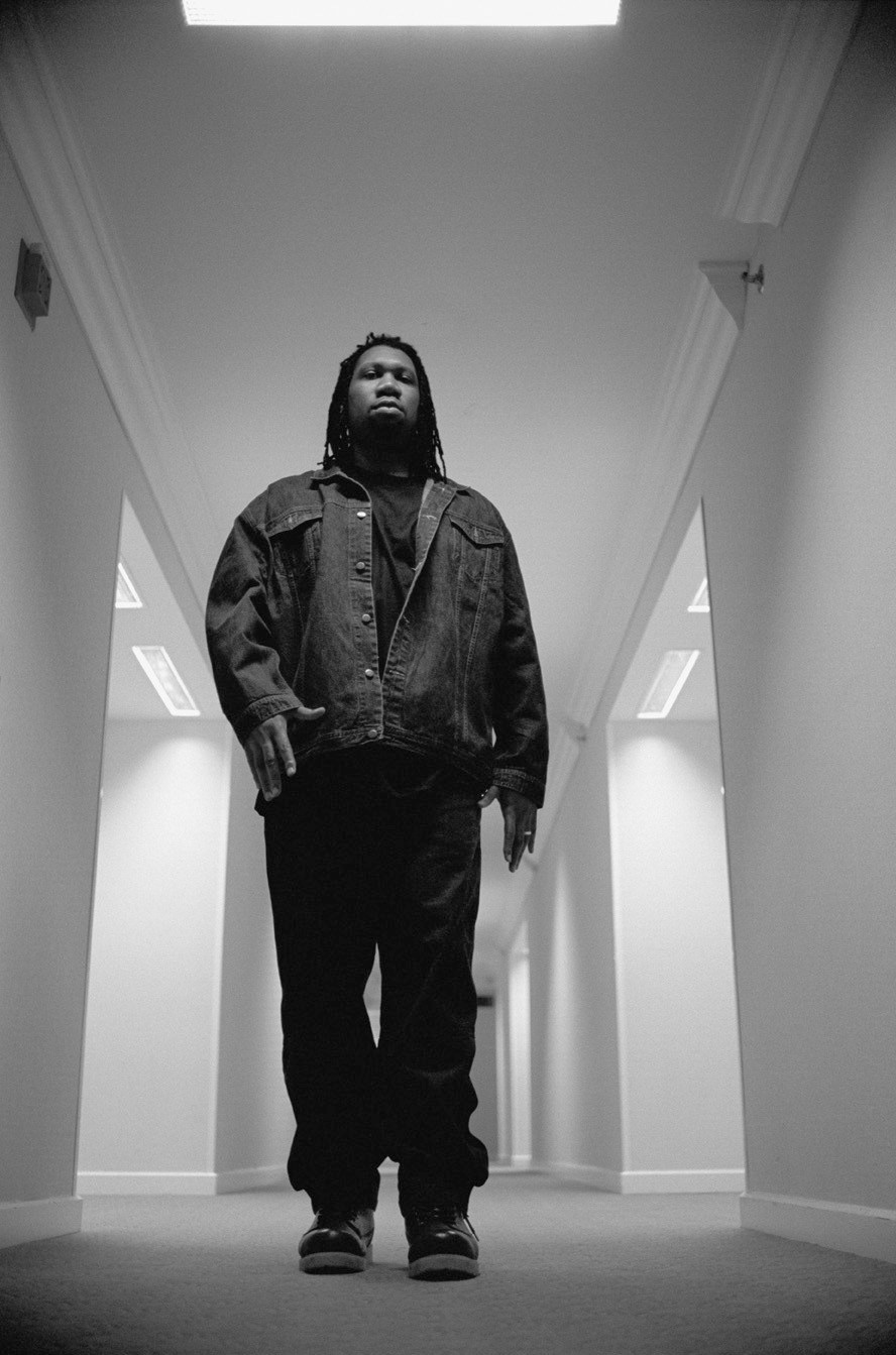 California 2001